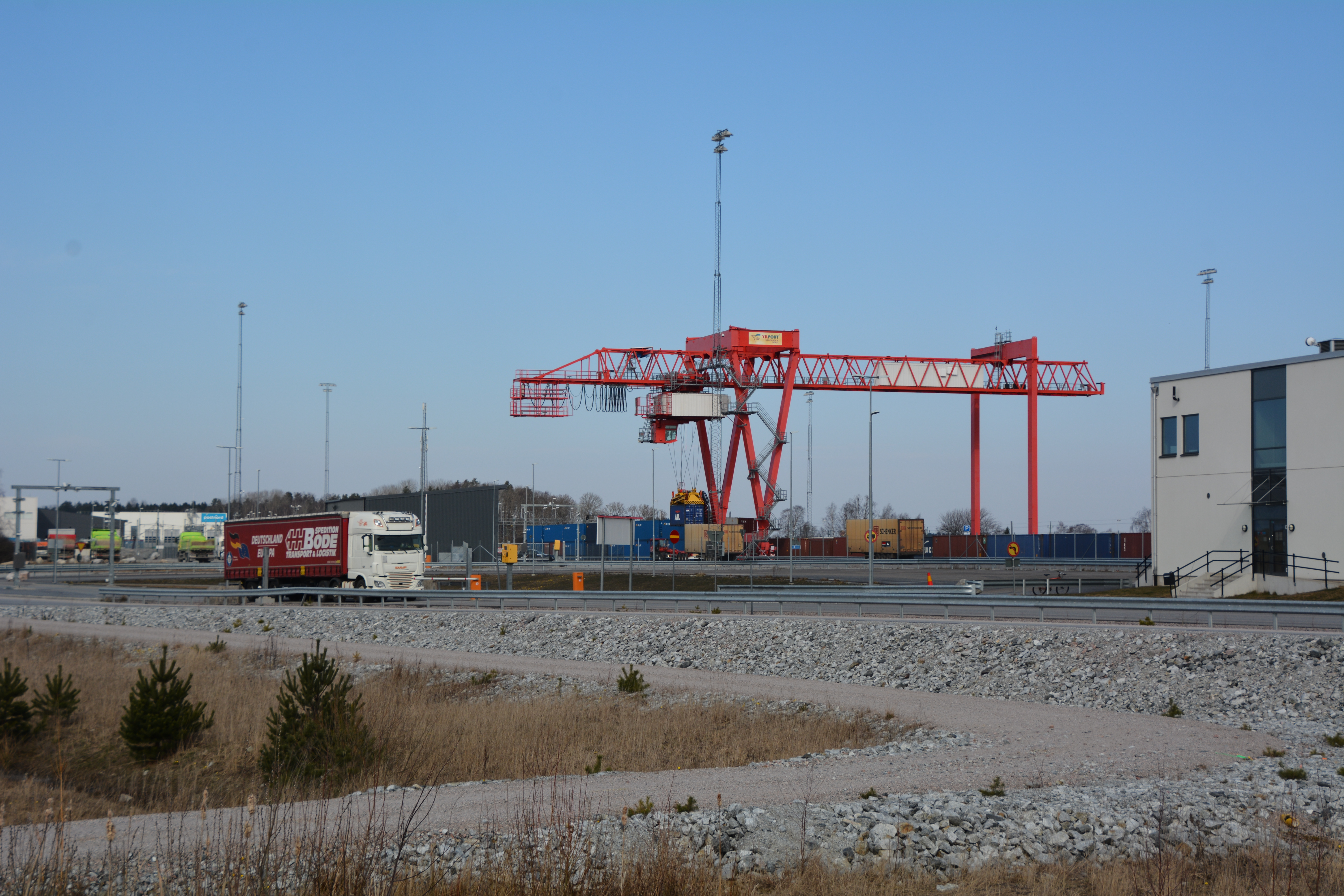 Combi Terminal Stockholm Nord, northern Crane